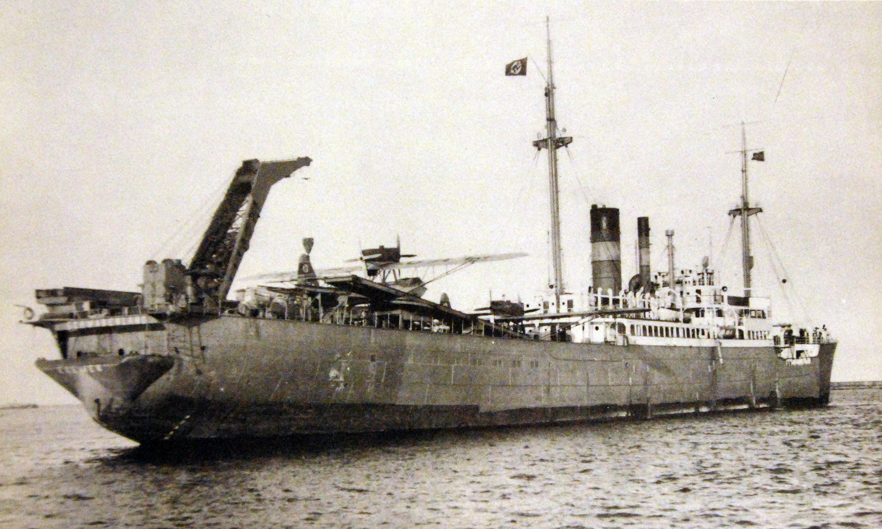 Lot-2275-5: German Warships, WWII. German catapult seaplane tender, Schwabenland, starboard aft, 1939. Halftone image from Division of Naval Intelligence, Identification and Characteristics Section, June 1943. Courtesy of the Library of Congress. (2016/05/06).